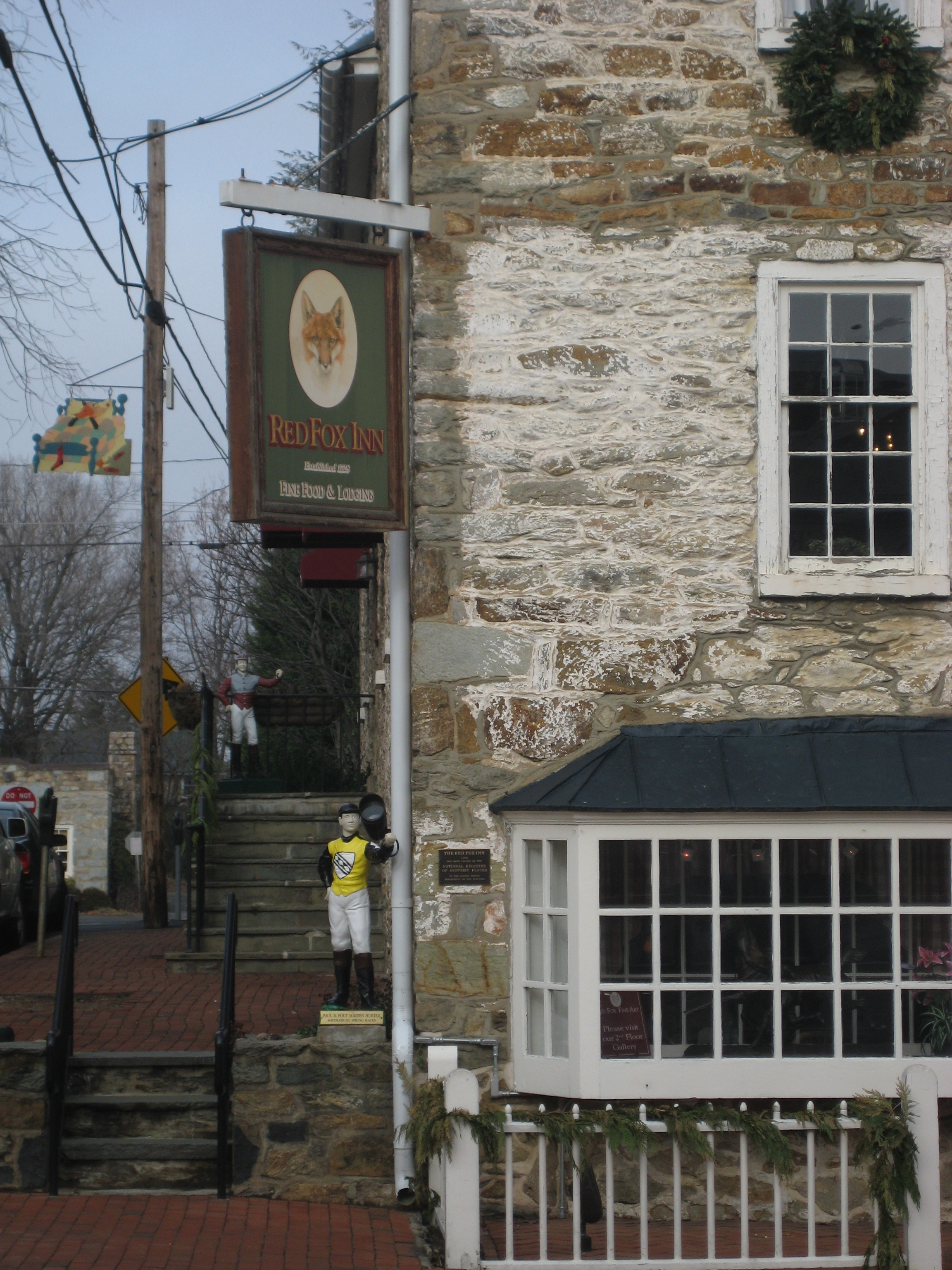 Red Fox Corner at Madison, The Red Fox Inn in Middleburg, Virginia. Location: Middleburg